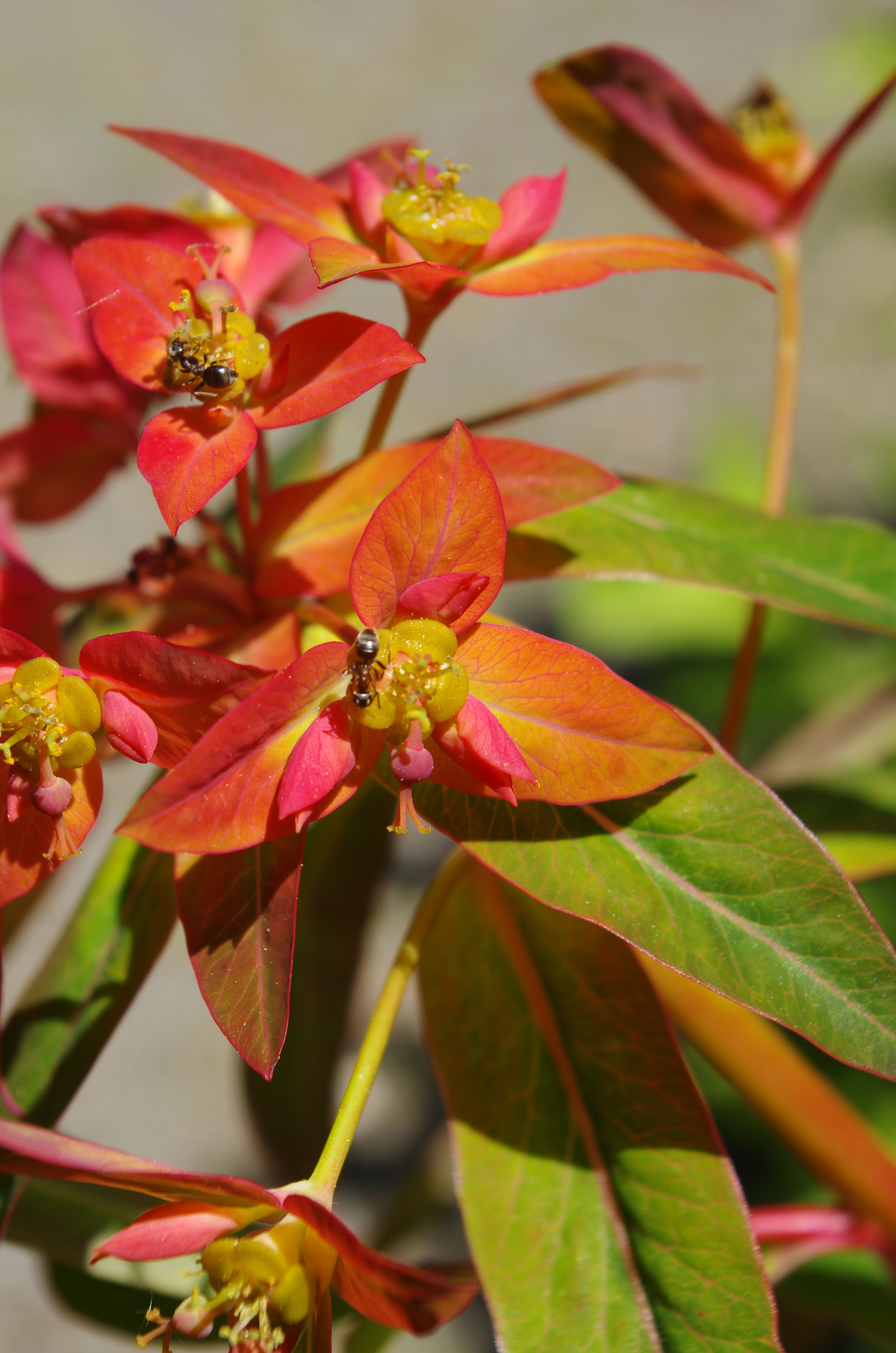 Euphorbia griffithii at the ÖBG Bayreuth